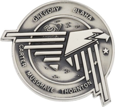 Photo I took of the Robbins Medallion for STS33 Please acknowledge "Phil Konstantin" as the creator of this photograph.